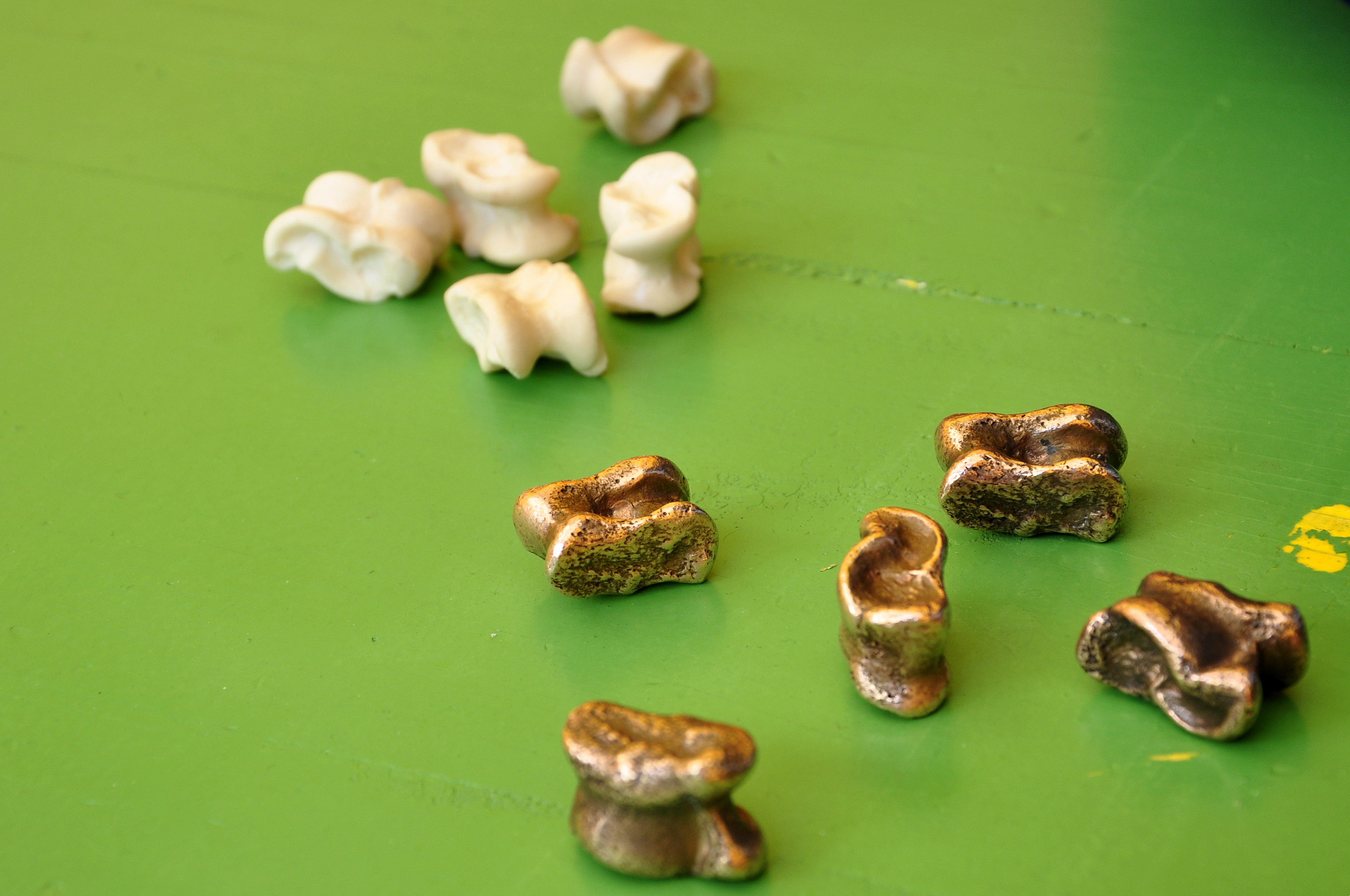 Legio XXI Rapax, 'guests' on Lindenhof plaza respectively Pfalzgasse in Zürich (Switzerland) on Friday-Monday before Sechseläuten in April 2011